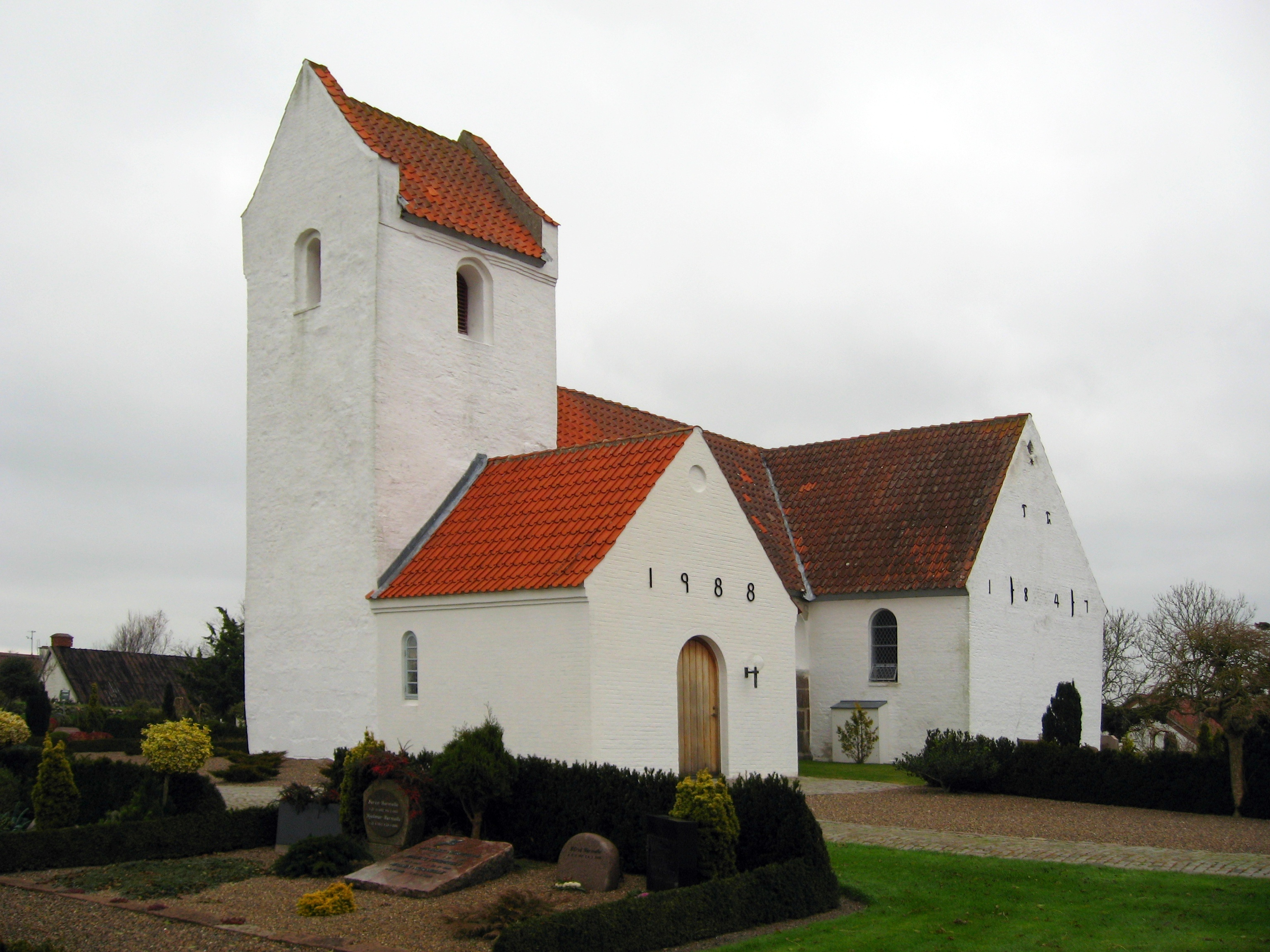 Klim Church, Denmark